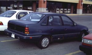 Passport Optima. Original image by User:Take Me Higher. Cropped image to remove the shopping center and compressed file to make it load faster. Note to User:Take Me Higher, please compare this image to your original image(s). This is a preferred format. Stude62 12:34, 18 April 2006 (UTC) I am repeating the original license placed by Take Me Higher for this image